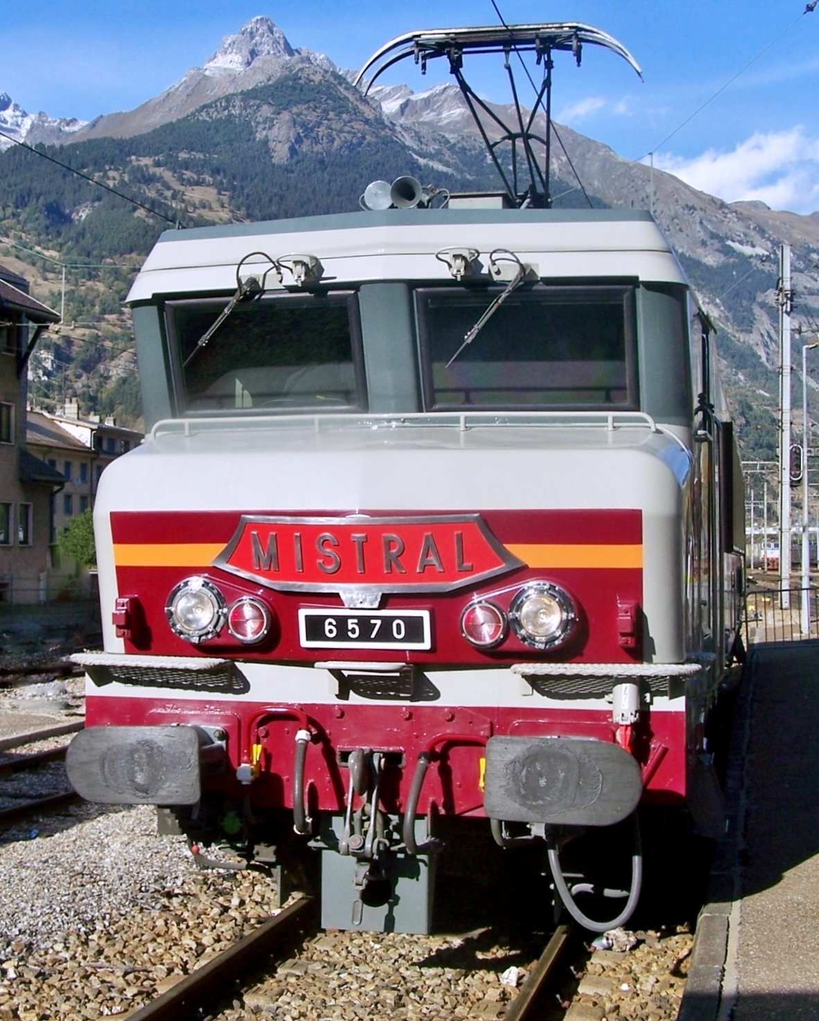 Sight of SNCF Class CC 6570 with its Mistral plaque and the Rateau d'Aussois mountain in the background, in city of Modane railway station in Savoie, France.